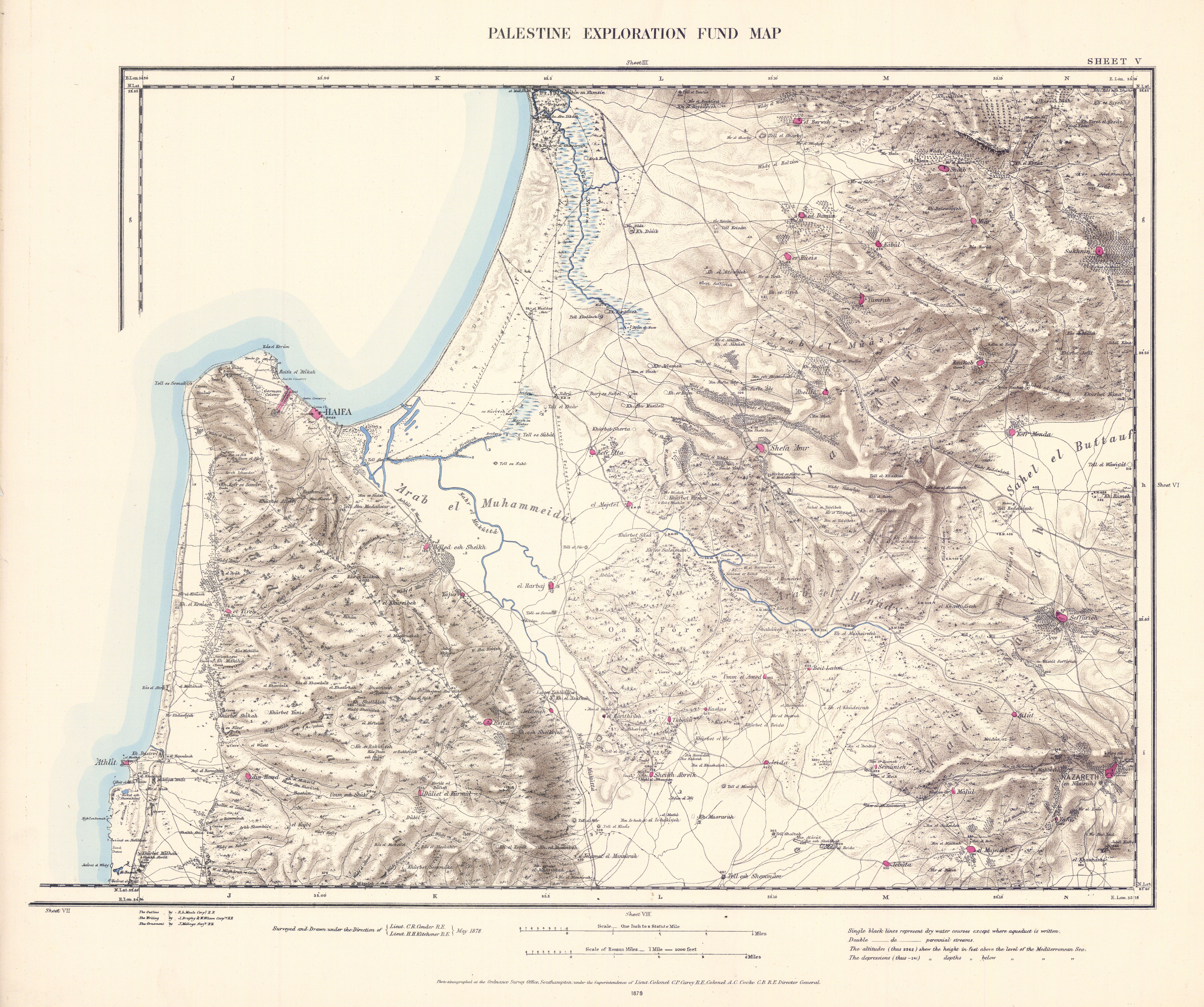 Map of Western Palestine in 26 sheets from the surveys conducted for the Committee of the Palestine Exploration Fund by Lietenanats C.R. Conder and H.H. Kitchener R.E. during the years 1872-1877. Photozincographed and Printed for the Committee ...at the Ordnance Survey Office Southampton. OCLC 234168442. Note I: Marked as copyrighted by Jewish National & University Library, which is not grounded. Note II: This is a collection 72dpi images. For the map in higher resolution, check either David Rumsey Map Collection, Israel Antiquities Authority, The Digital Archaeological Atlas of the Holy Land, Amud Anan (Hebrew), or a CD from BiblePlaces.